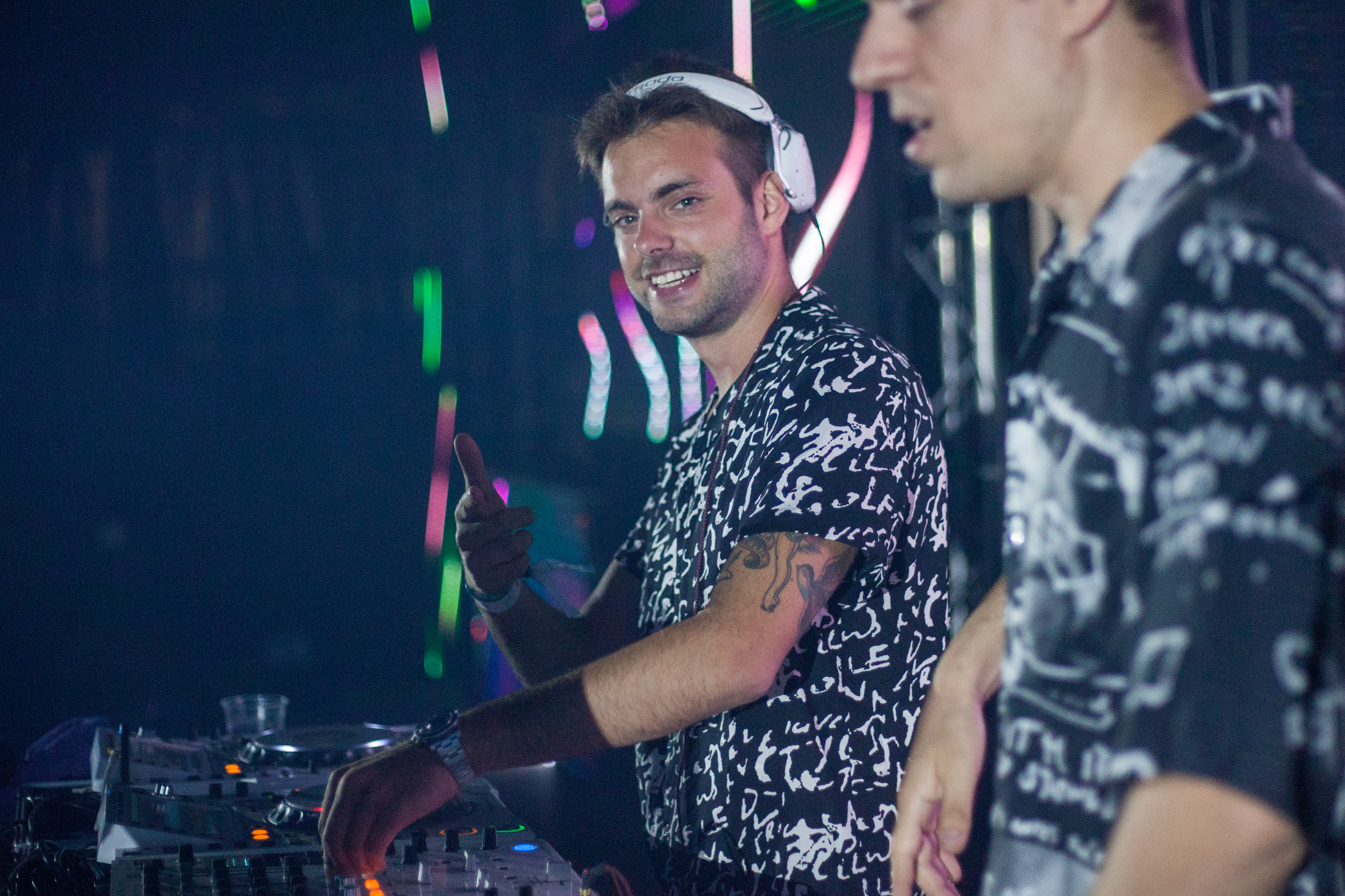 Italian musical duo Merk & Kremont performing at electronic music festival Beats for Love 2019 (Ostrava, Czechia) on 6 July 2019